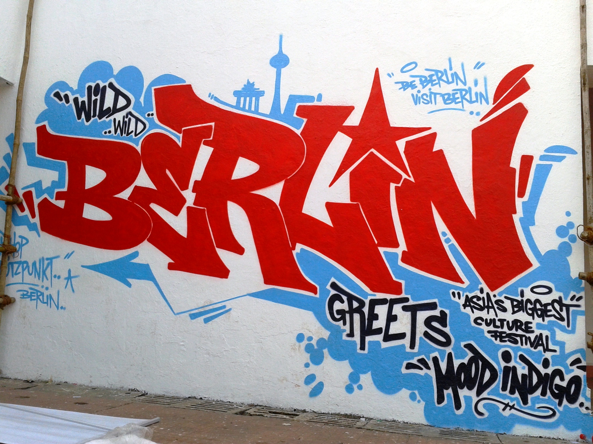 Graffiti painted by German artists on the walls of the Open air Theatre at IIT Bombay as part of it's Mood Indigo festival